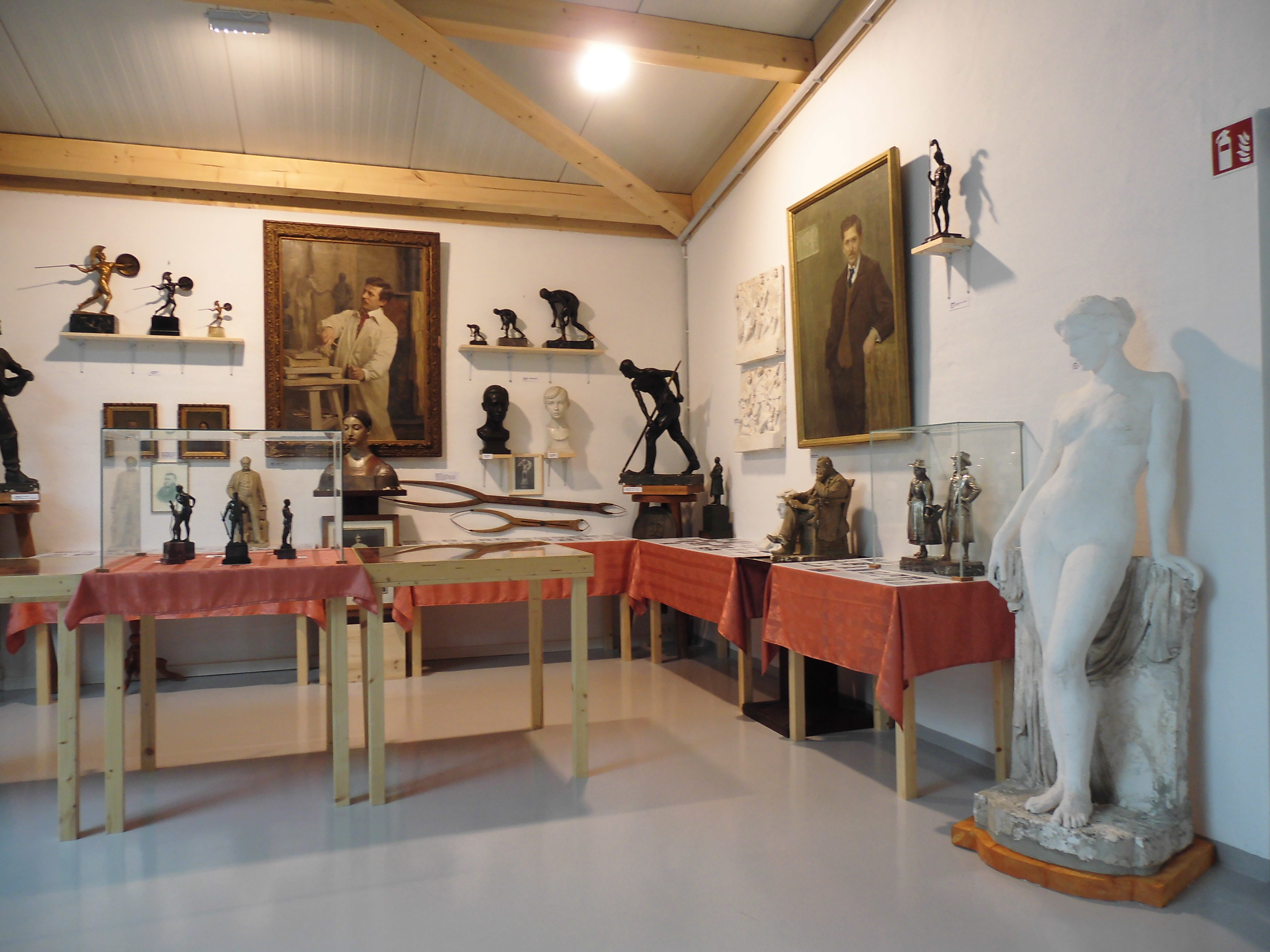 Exhibition of sculptures by Wilhelm Wandschneider in Burgmuseum Plau am See